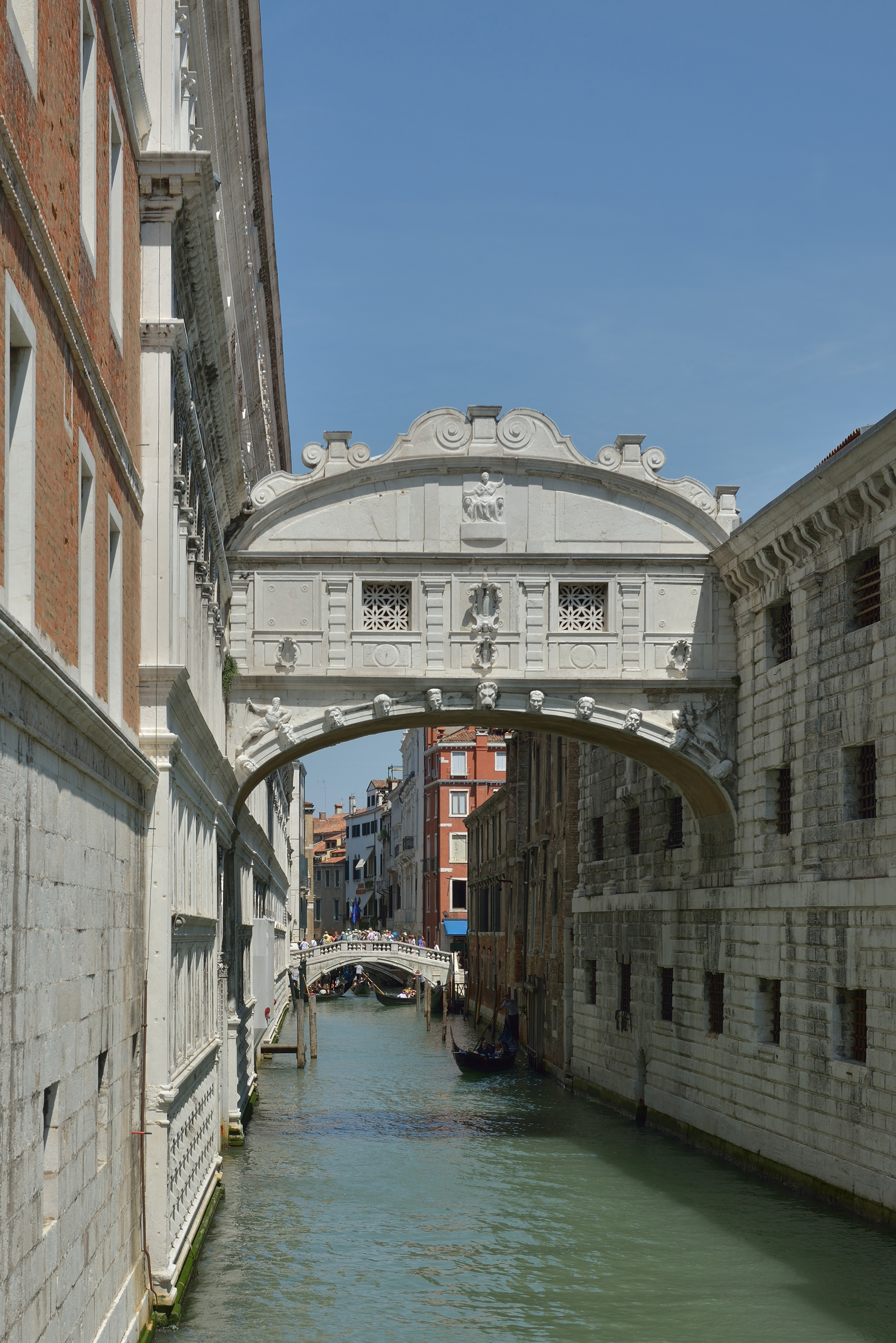 The Bridge of Sighs. On the left the Doge's Palace, on the right the Prison Piombi and at the bottom the Ponte de la Canonica bridge in Venice.